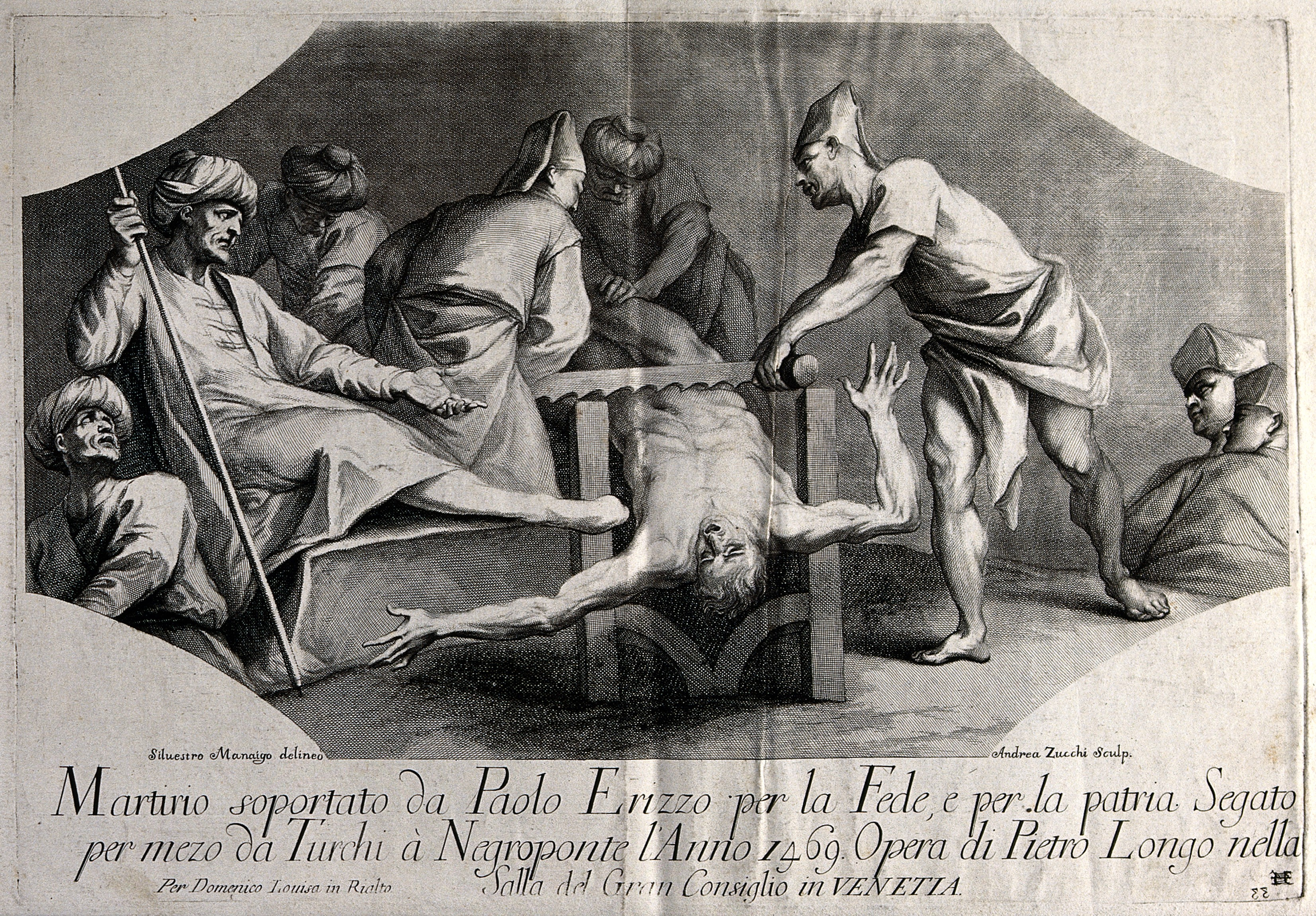 Martyrdom of Paul Erizzo. Line engraving by A. Zucchi after S. Manaigo after P. Longhi. Iconographic Collections